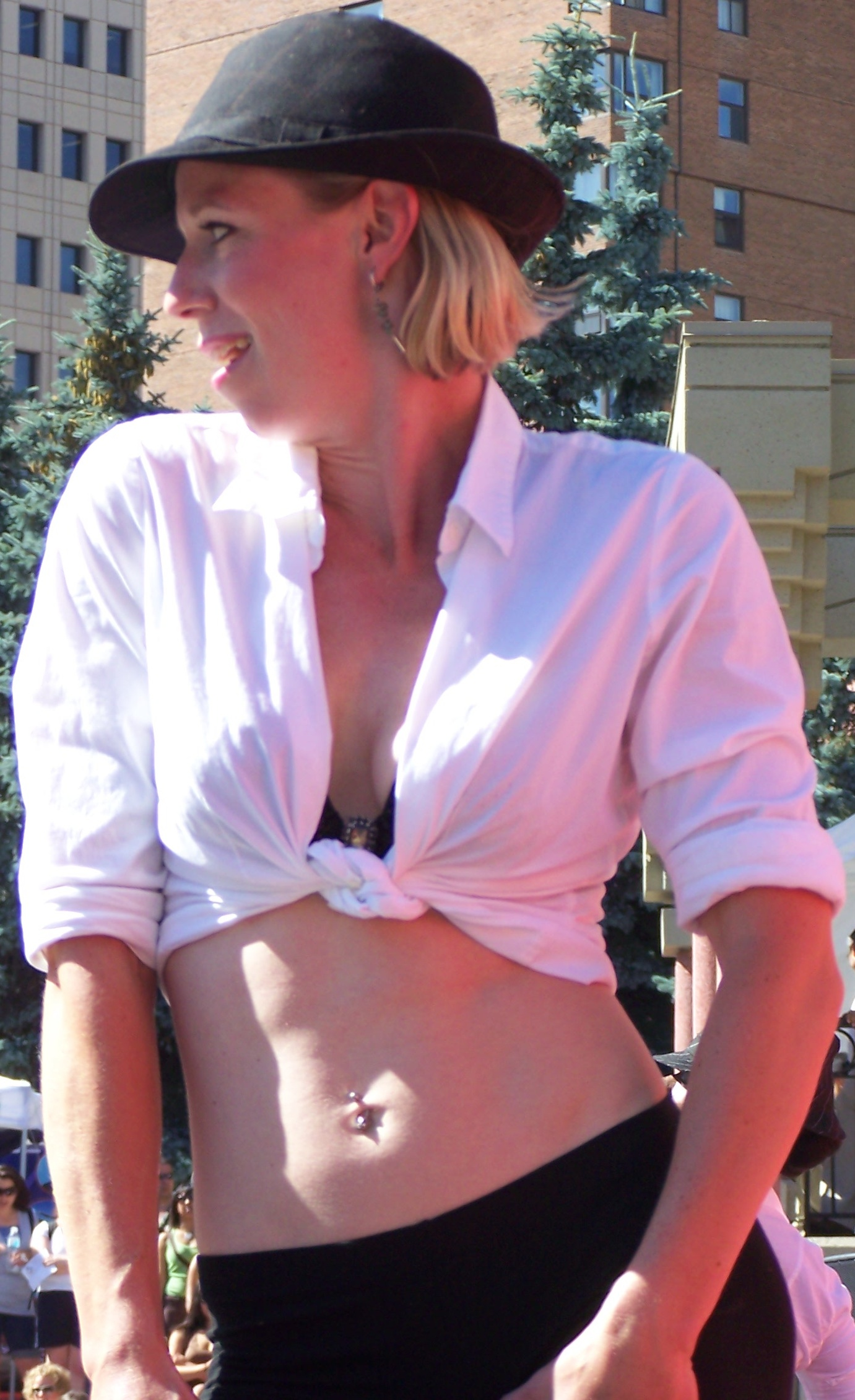 A dancer at Fiestival, a Latin/hispanic/Canadian cultural festival held at Olympic Plaza in Calgary, Alberta, Canada.